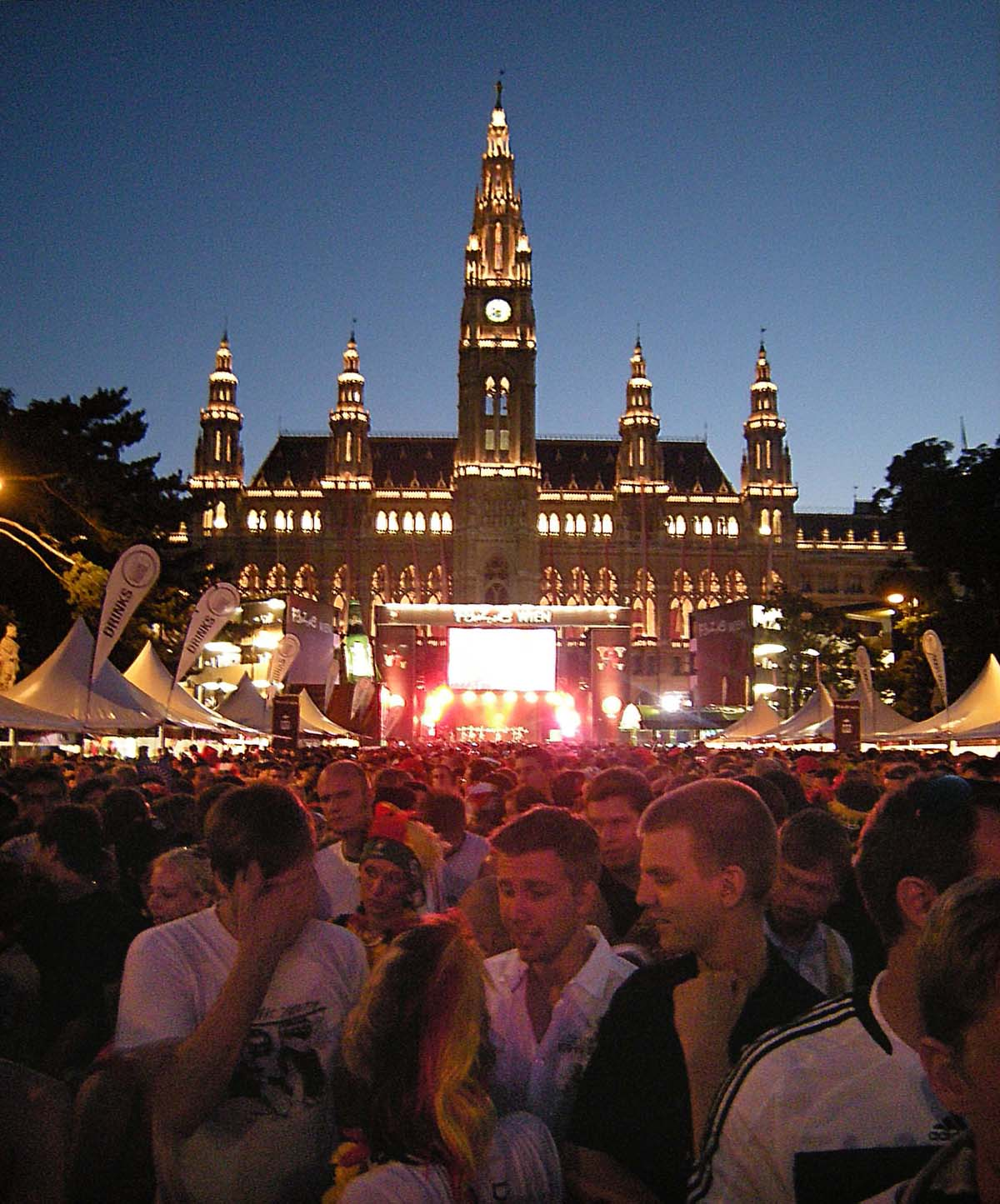 Crowd in Vienna's main fan zone during the final match, Germany:Spain.